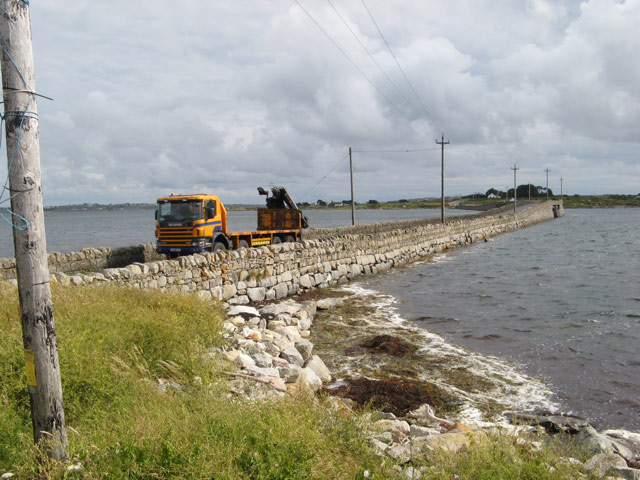 High-tide causeway A view from Lettermore car park southwards towards Gorumna Island, on a brighter day than encountered by previous submitters! The road is the R374, and is wide enough for two ordinary cars to pass, but large vehicles cannot. The state of the utility pole is very typical for the area.